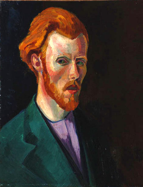 Zelfportret